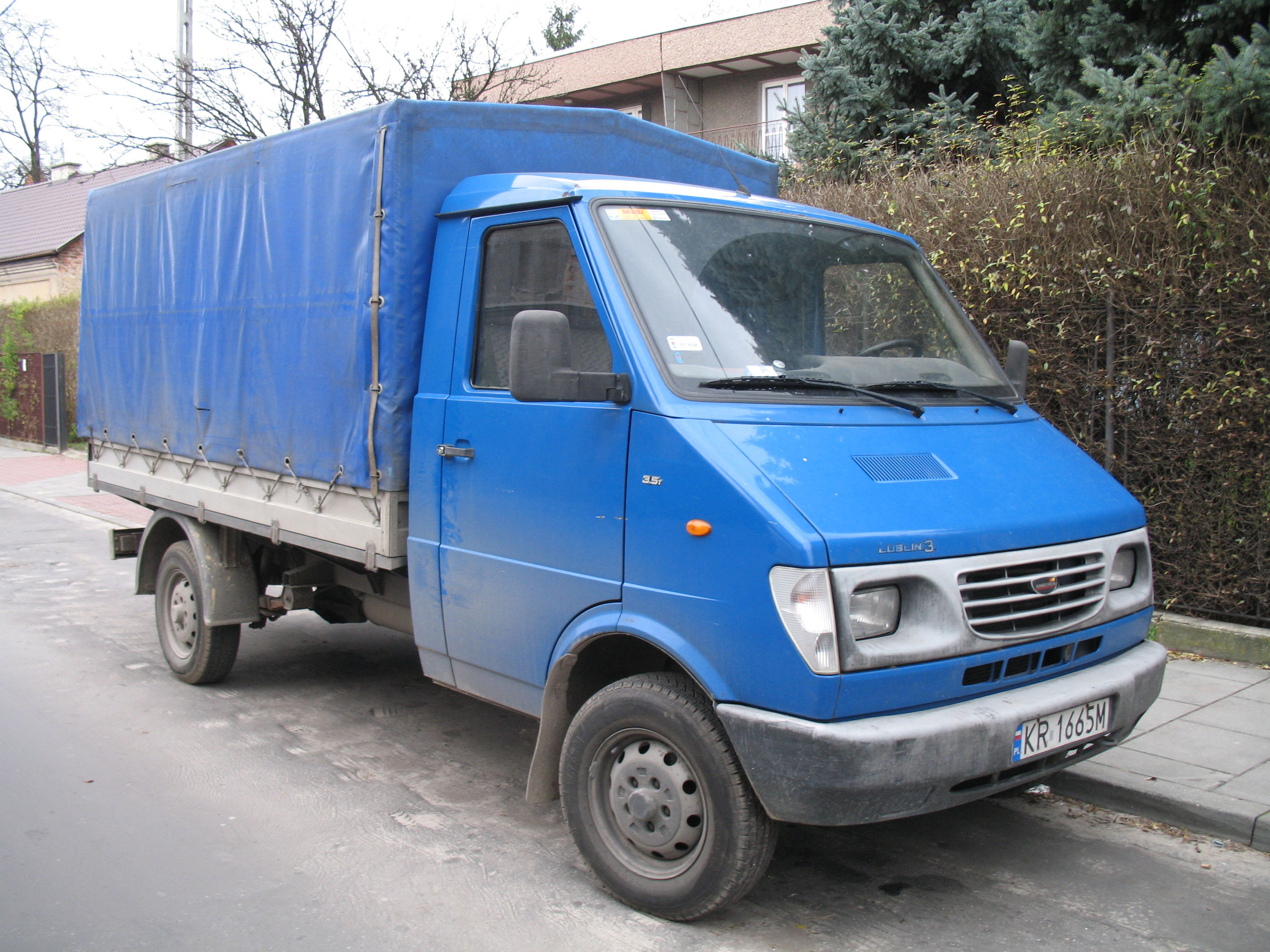 Andoria Lublin 3 in Kraków, Poland.